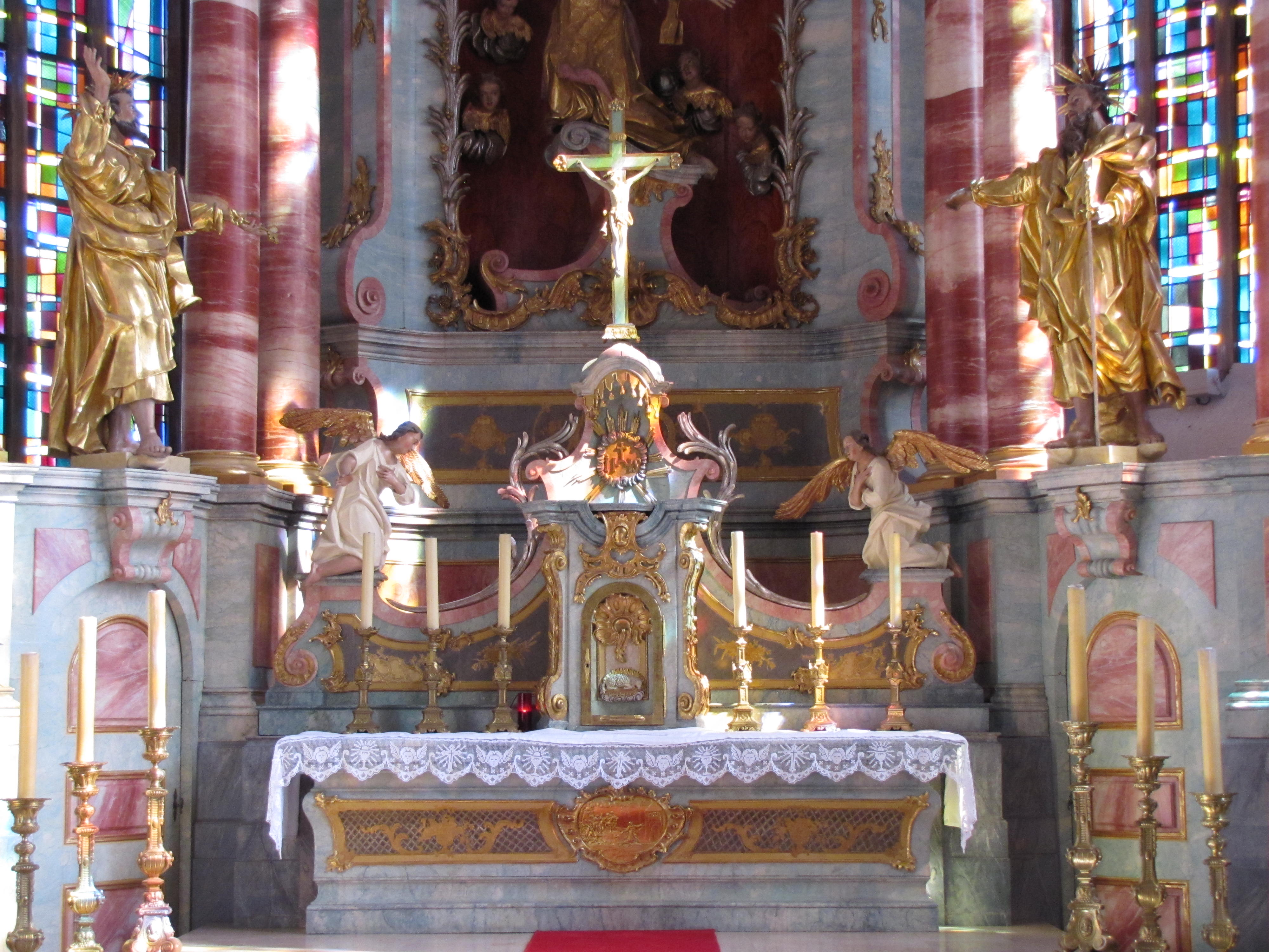 Alsace, Bas-Rhin, Seltz, Église Saint-Étienne (PA67000069, IA67007467). Maître autel baroque (XVIIIe): This object is classé Monument Historique in the base Palissy, database of the French furniture patrimony of the French ministry of culture, under the references PM67000316 and IM67011426.